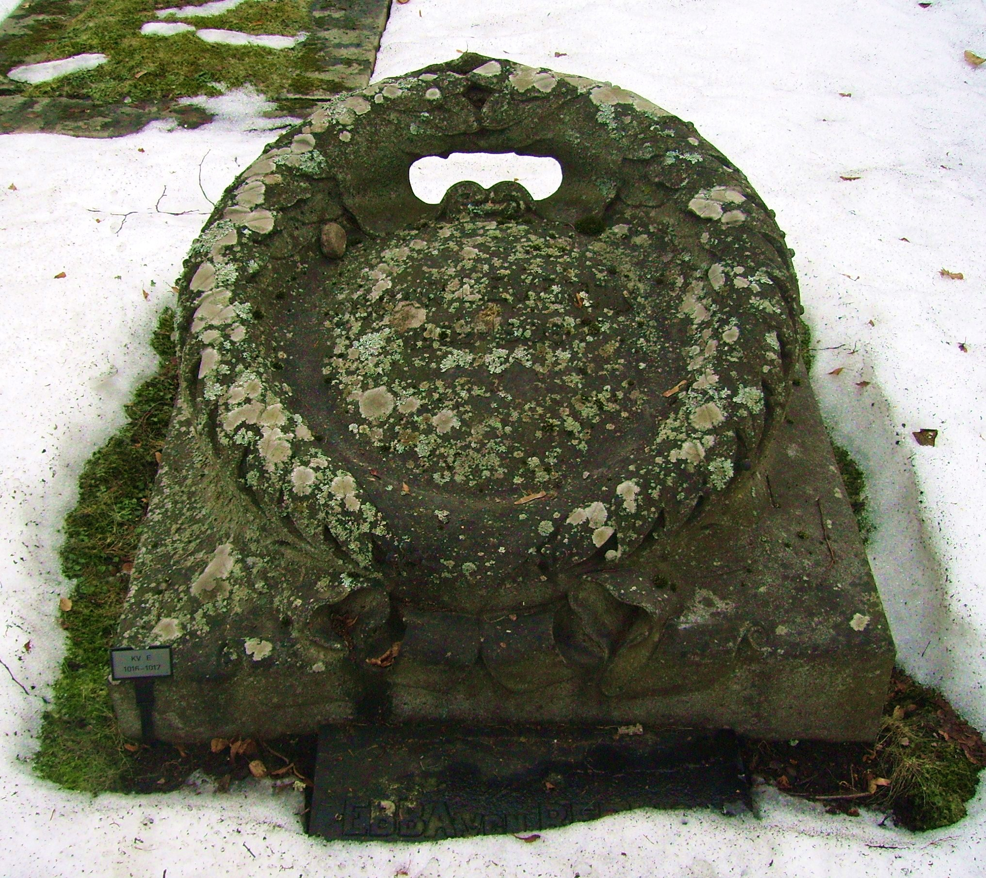 Picture of Oscar Levertin's grave at Judiska norra begravningsplatsen in Solna